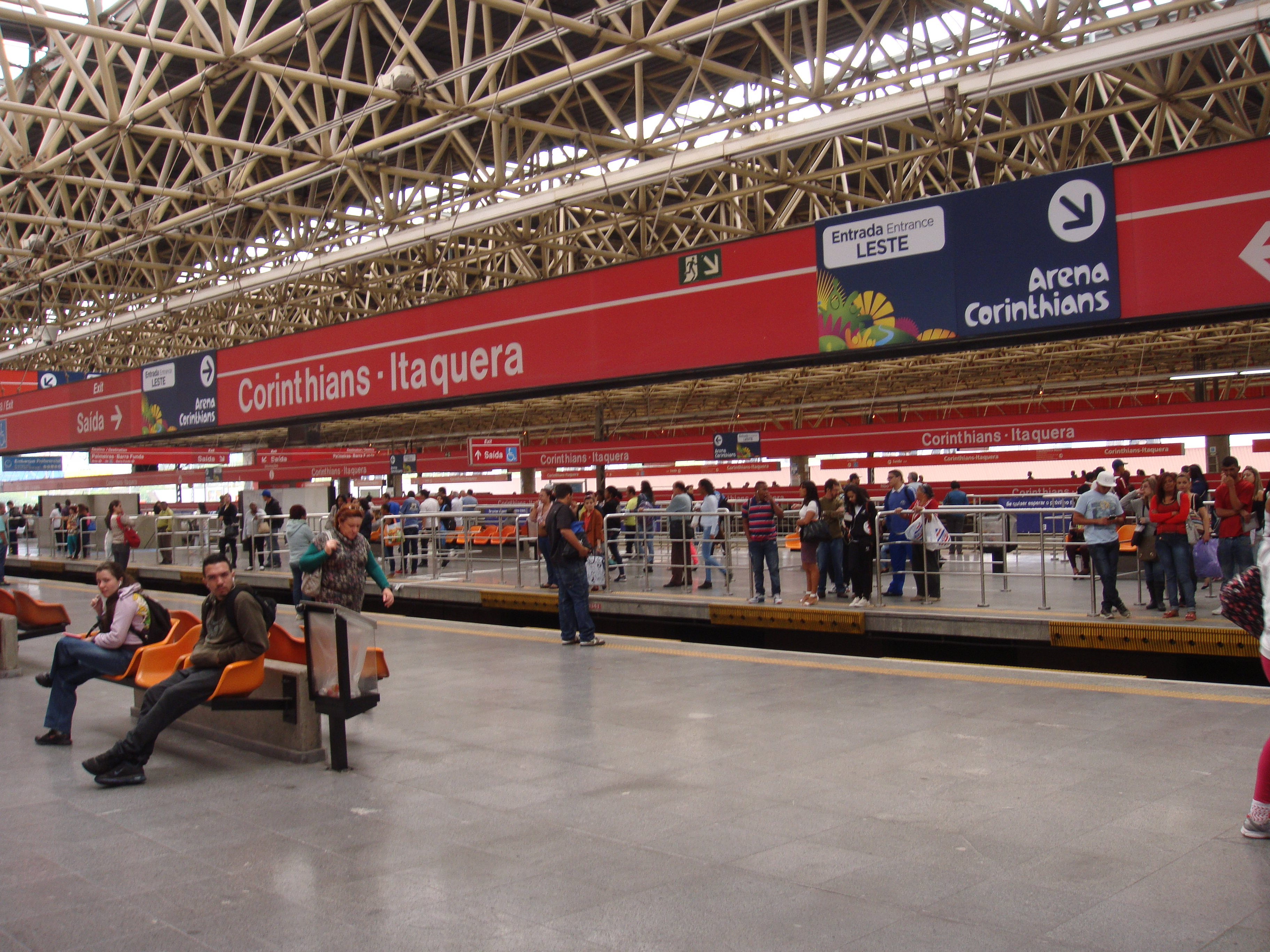 São Paulo Subway, Corinthians Itaquera Station